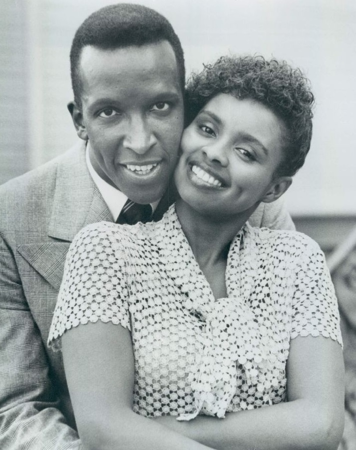 Press photo of Dorian Harewood & Debbi Morgan for The Jesse Owens Story in 1984